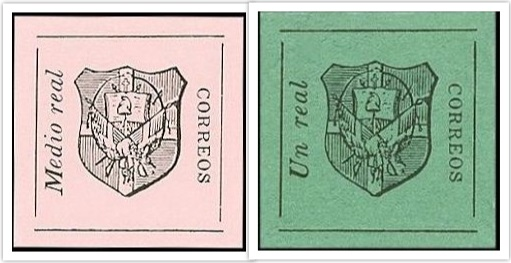 PrimerosSellos